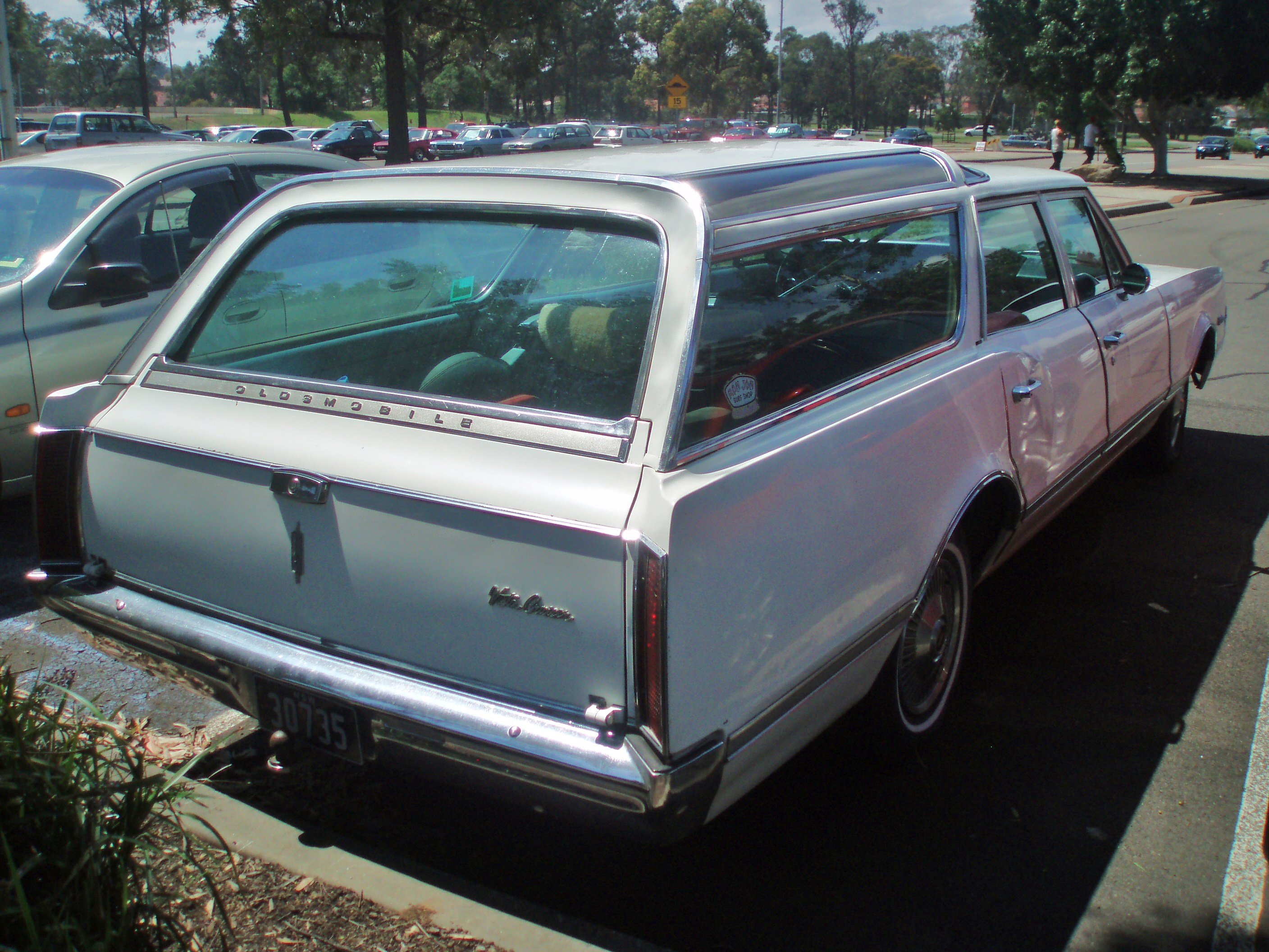 1966 Oldsmobile Vista Cruiser station wagon. Taken in the carpark outside the 2010 New South Wales All Chrysler Day, held at Fairfield Showground, Prairiewood, Sydney.